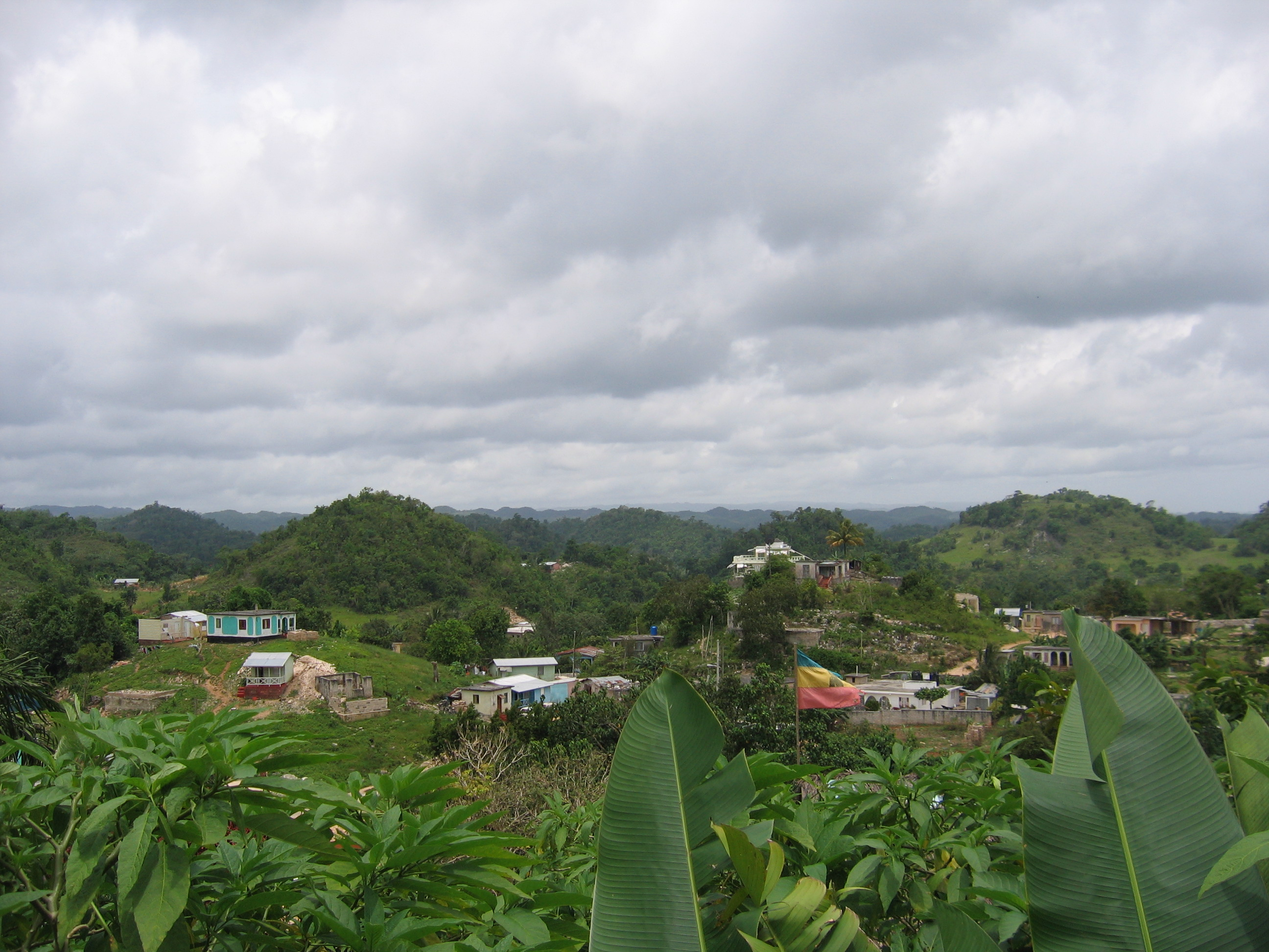 Bob Marley's hometown